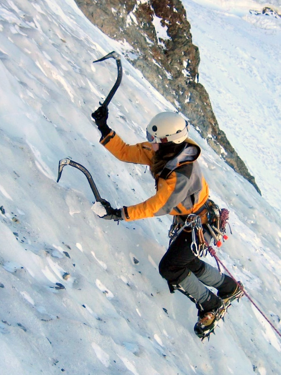 Agnes Sauvage - Dana Couloir - Mt. Dana - California